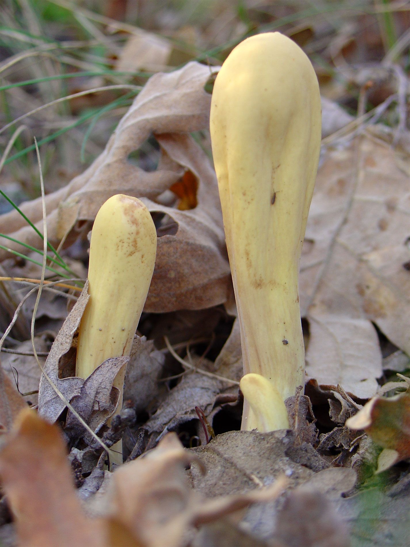 Clavariadelphus pistillaris growing under a Quercus pyrenaica forest in Spain.